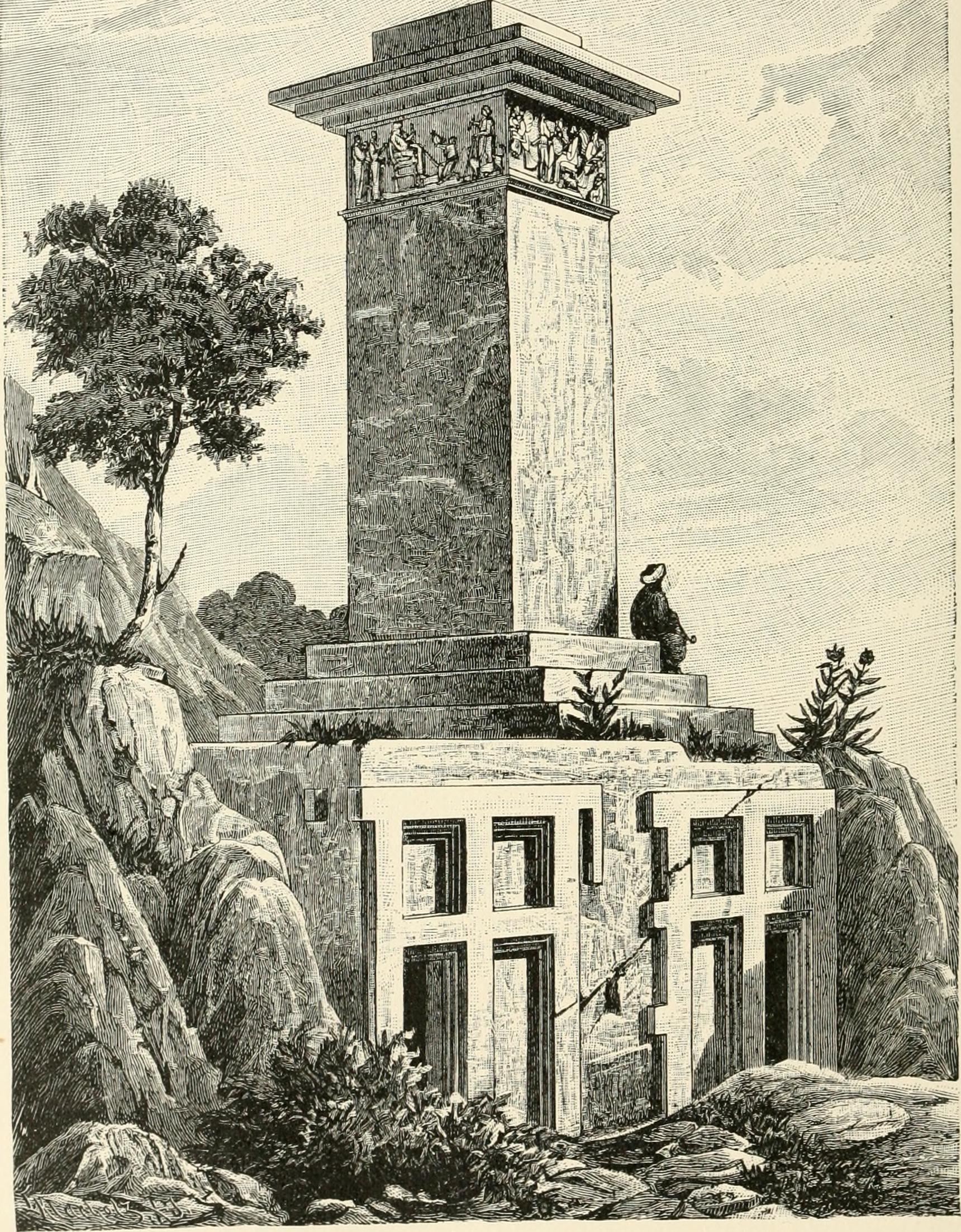 Identifier: historyofallnati02wrig Title: A history of all nations from the earliest times; being a universal historical library Year: 1905 (1900s) Authors: Wright, John Henry, 1852-1908 Subjects: World history Publisher: [Philadelphia, New York : Lea Brothers & company Text Appearing Before Image: ' Text Appearing After Image: Fui. 25. — The liaipy Tomb ul Xaiithus. (.From Fellows.) TEE HARPY TOMB OF XAXTIIUS. 121